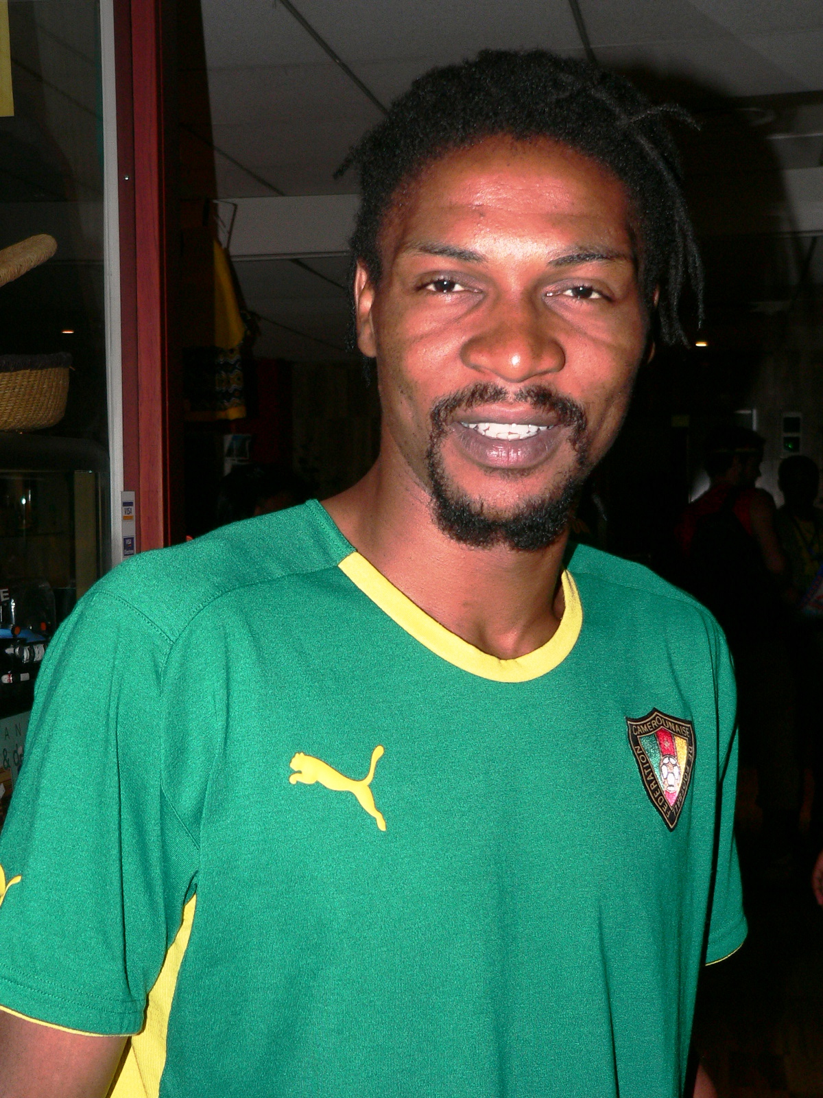 Cameroon's captain at the 2008 African Nations Cup in Ghana.